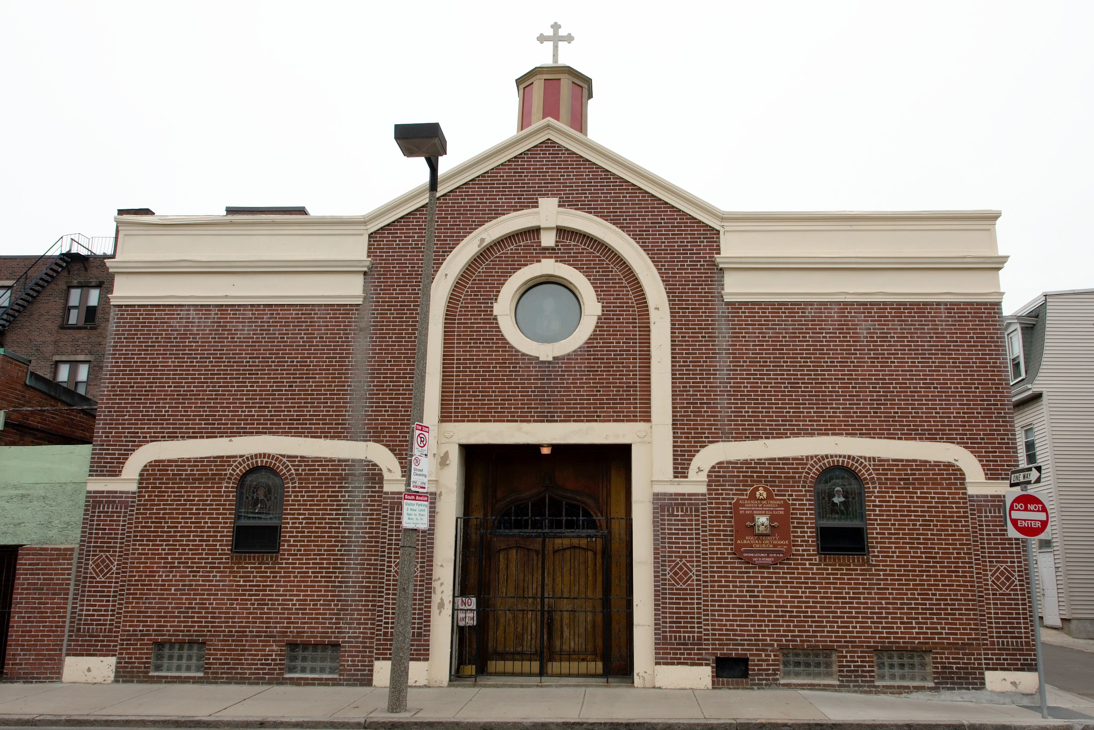 Holy Trinity Albanian Orthodox Church